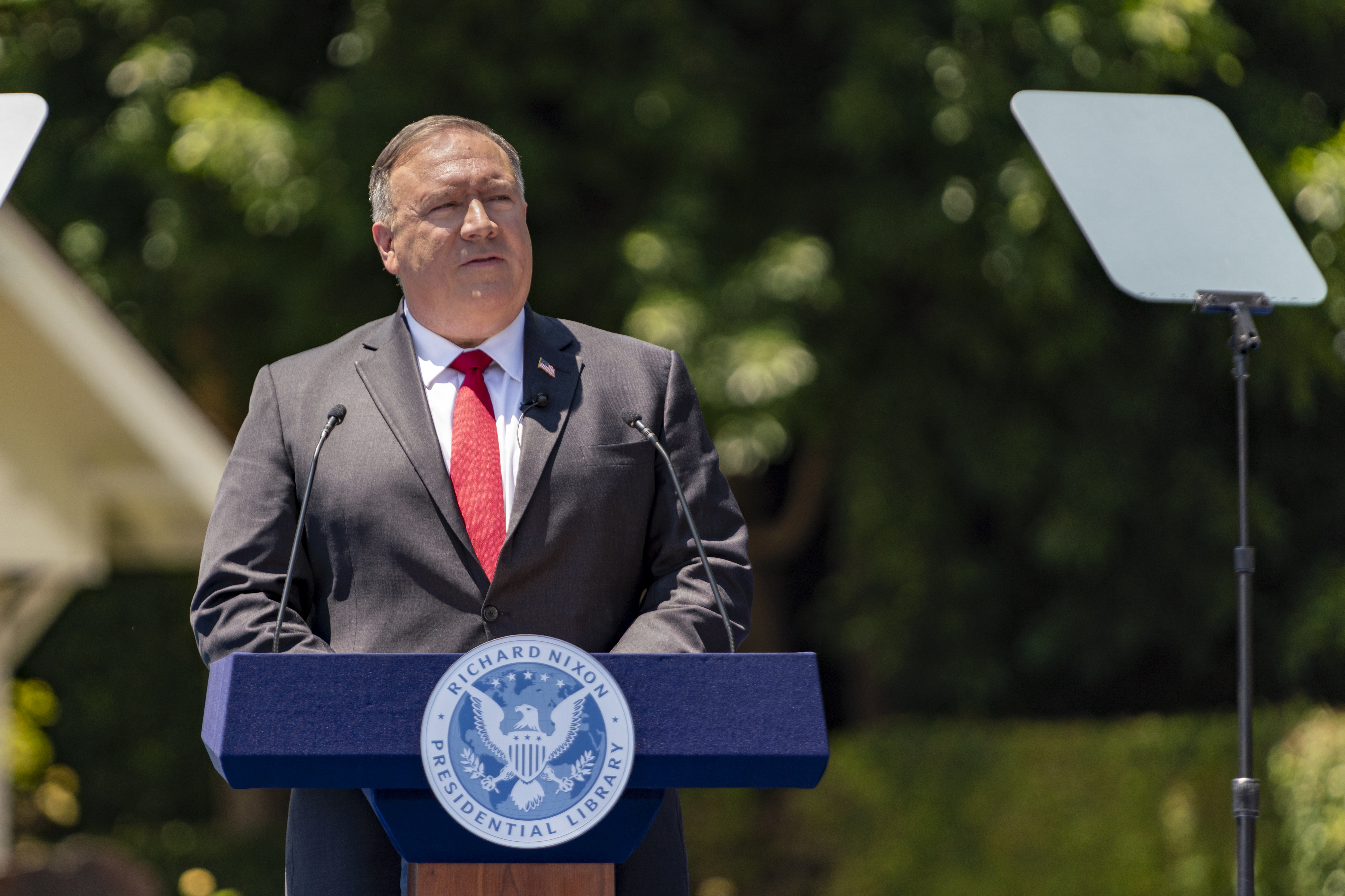 Secretary of State Michael R. Pompeo delivers a speech on “Communist China and the Free World’s Future” at the Richard Nixon Presidential Library, in Yorba Linda, California, on July 23, 2020. [State Department photo by Ron Przysucha/ Public Domain]